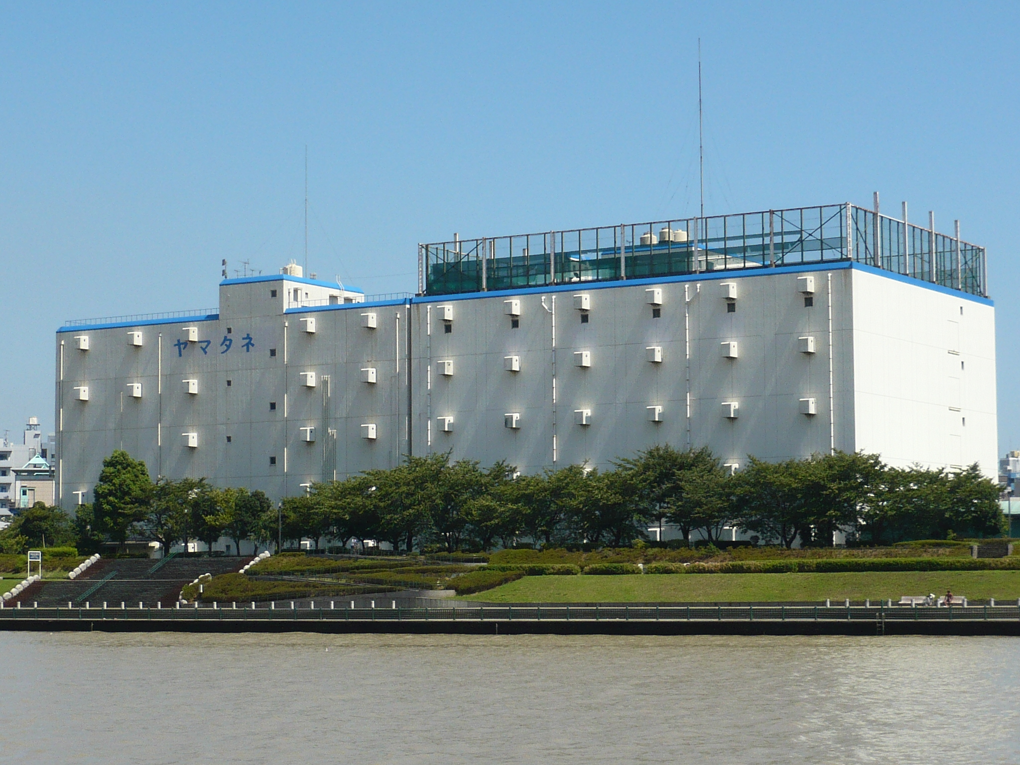 Yamatane Corporation in Koto-ku, Tokyo, Japan.